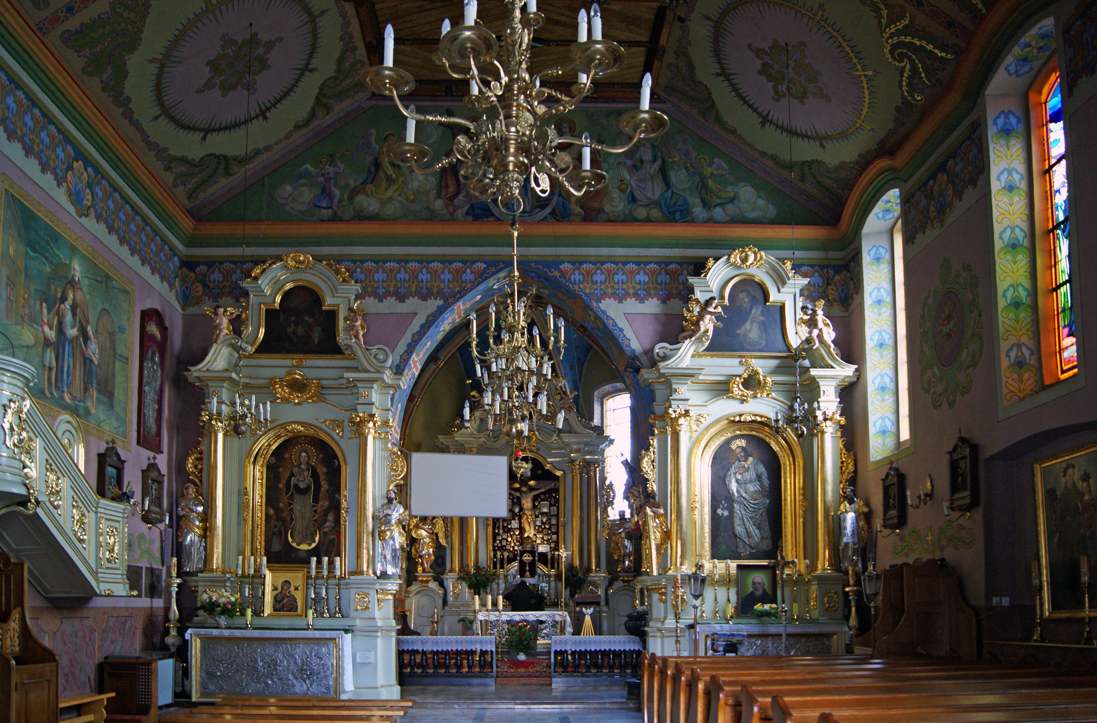 Church of the Nativity of the Theotokos (interior), Igołomia village, Kraków County, Lesser Poland Voivodeship, Poland